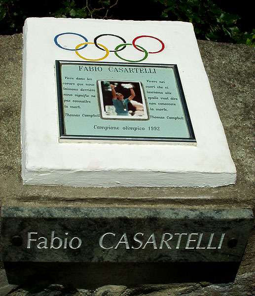 The place on Col de Portet d'Aspet where Fabio Casartelli died Autor: Peter Krsko, Slovakia